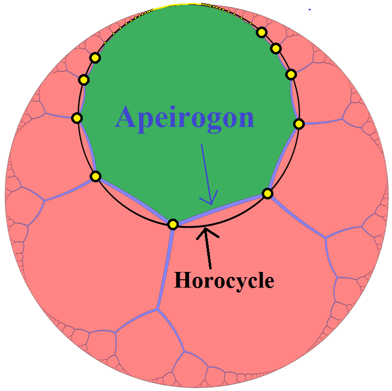 File:Order-3 apeirogonal tiling one cell horocycle.png with labels